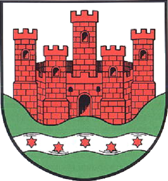 Coat of arms of the town Meldorf in Schleswig-Holstein, Germany.